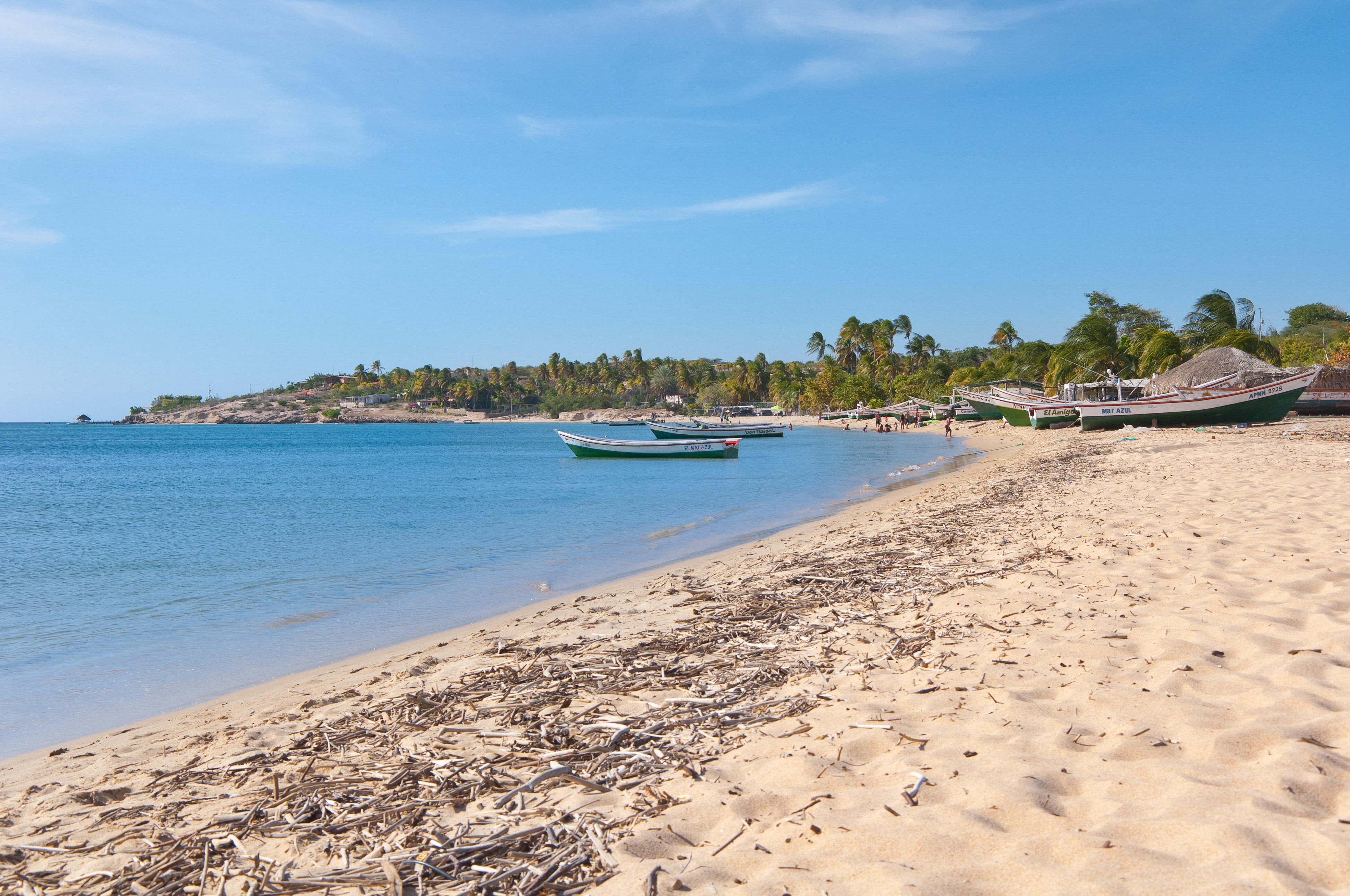 Punta Arenas in Península de Paria, Venezuela.